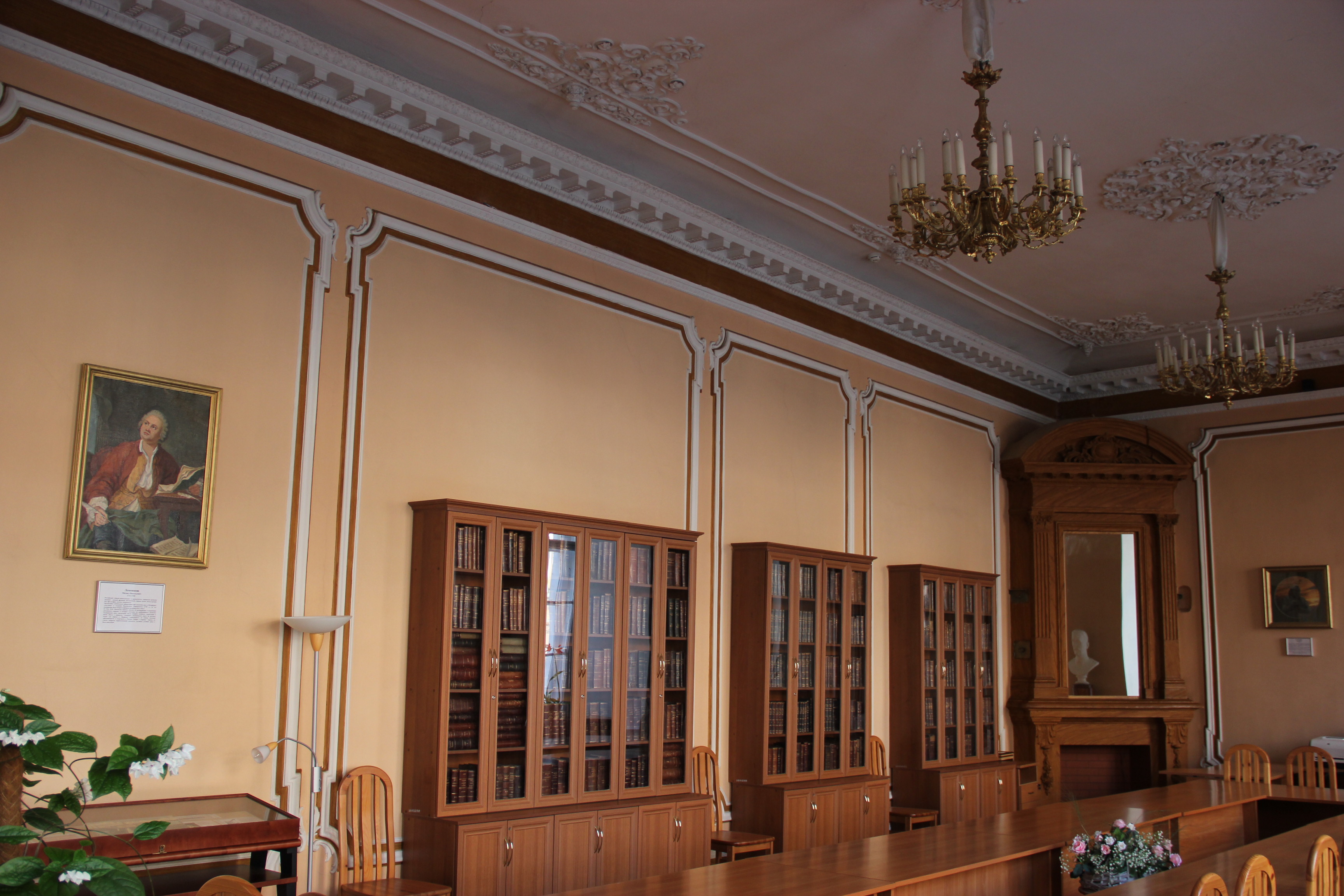 Small Hall of the Shuvalov Palace St. Petersburg